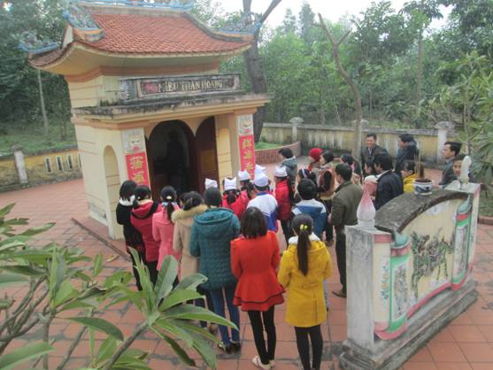 very good